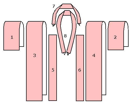 Stylized overview of making Nagagi, which is one of Kimono. 1 and 2 sleeve, sode 3 and 4 body piece, migoro 5 and 6 front gusset, okumi 7 collar enforcement, uwaeri or tomoeri 8 collar main piece, eri